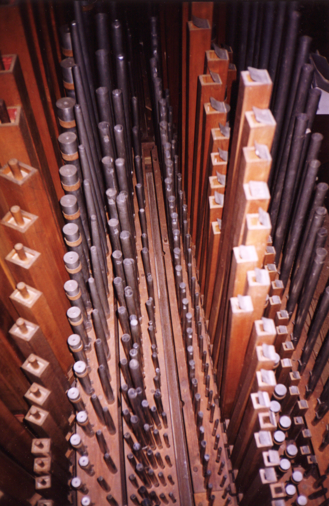 1 and 2 Manuals pipes of Friedrich Ladegast organ in Valga, Estonia. Photo author Jüri Goltsov.